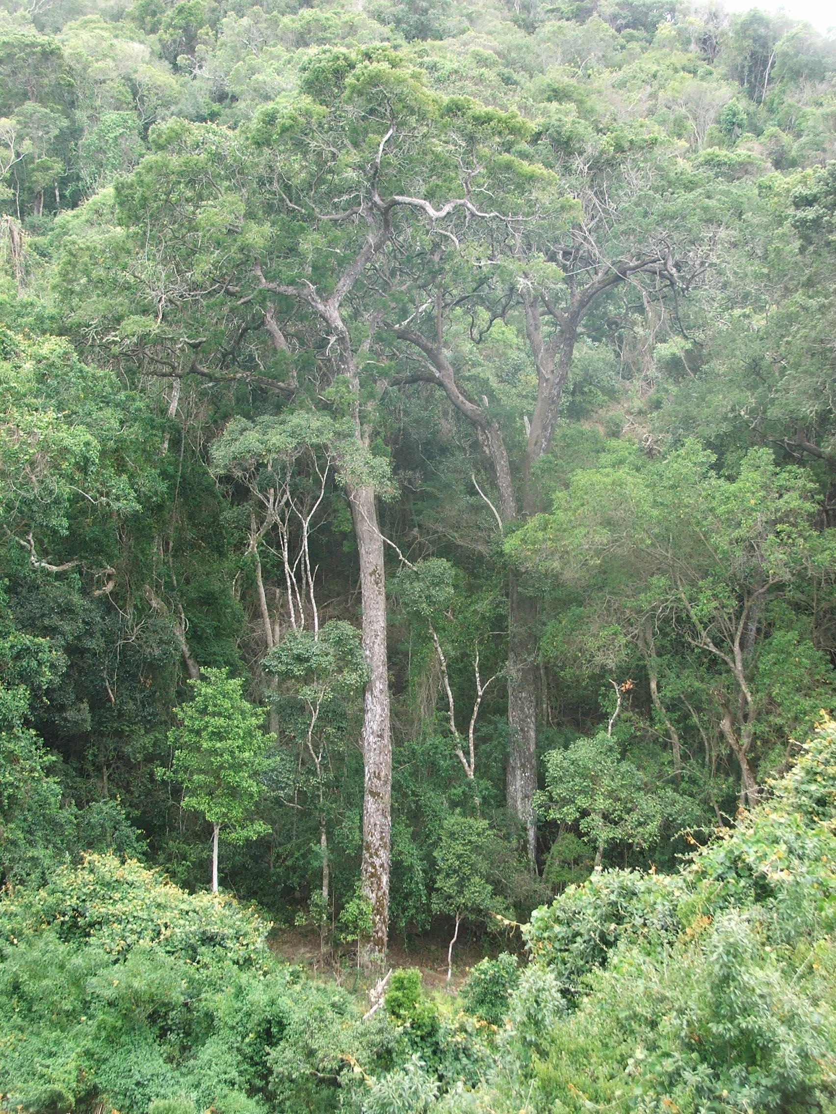 Indigenous trees growing in afro-temperate forest in South Africa.